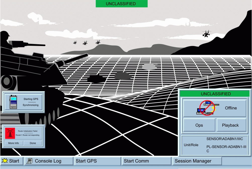 Session Manager Screen of the FORCE XXI BATTLE COMMAND BRIGADE-AND-BELOW (FBCB2)